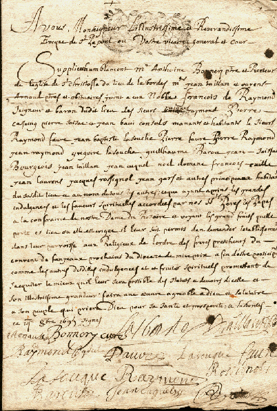 Erection de la confrérie du Rosaire dans l’église de Lasbordes, 1696.